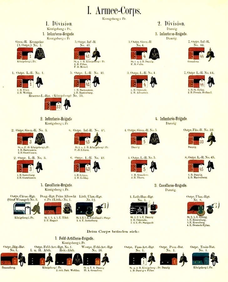 1. army corps card